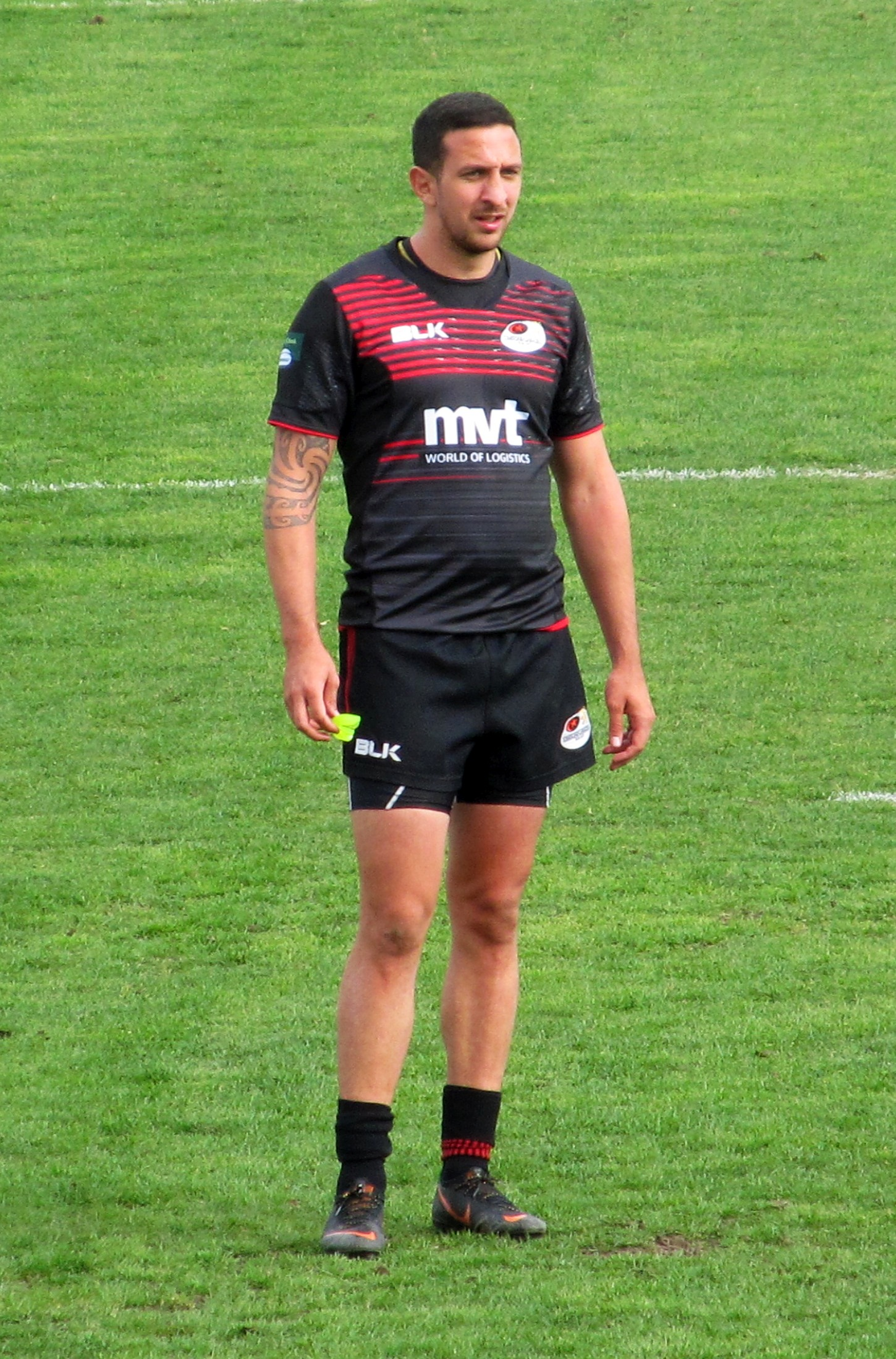 New Zealand-born Romanian rugby union football player Stephen Shennan during the 2019 Cupa României Final match between his team, Timișoara Saracens, and rivals CSM București in March 2019